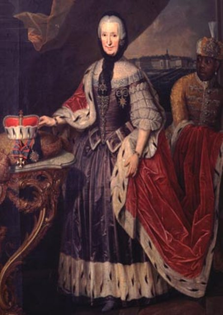 Portrait of Countess Palatine Francisca Christina of Sulzbach (1696-1776)label QS:Len,"Portrait of Countess Palatine Francisca Christina of Sulzbach (1696-1776)" label QS:Lde,"Franziska Christine von Pfalz-Sulzbach (1696-1776)"